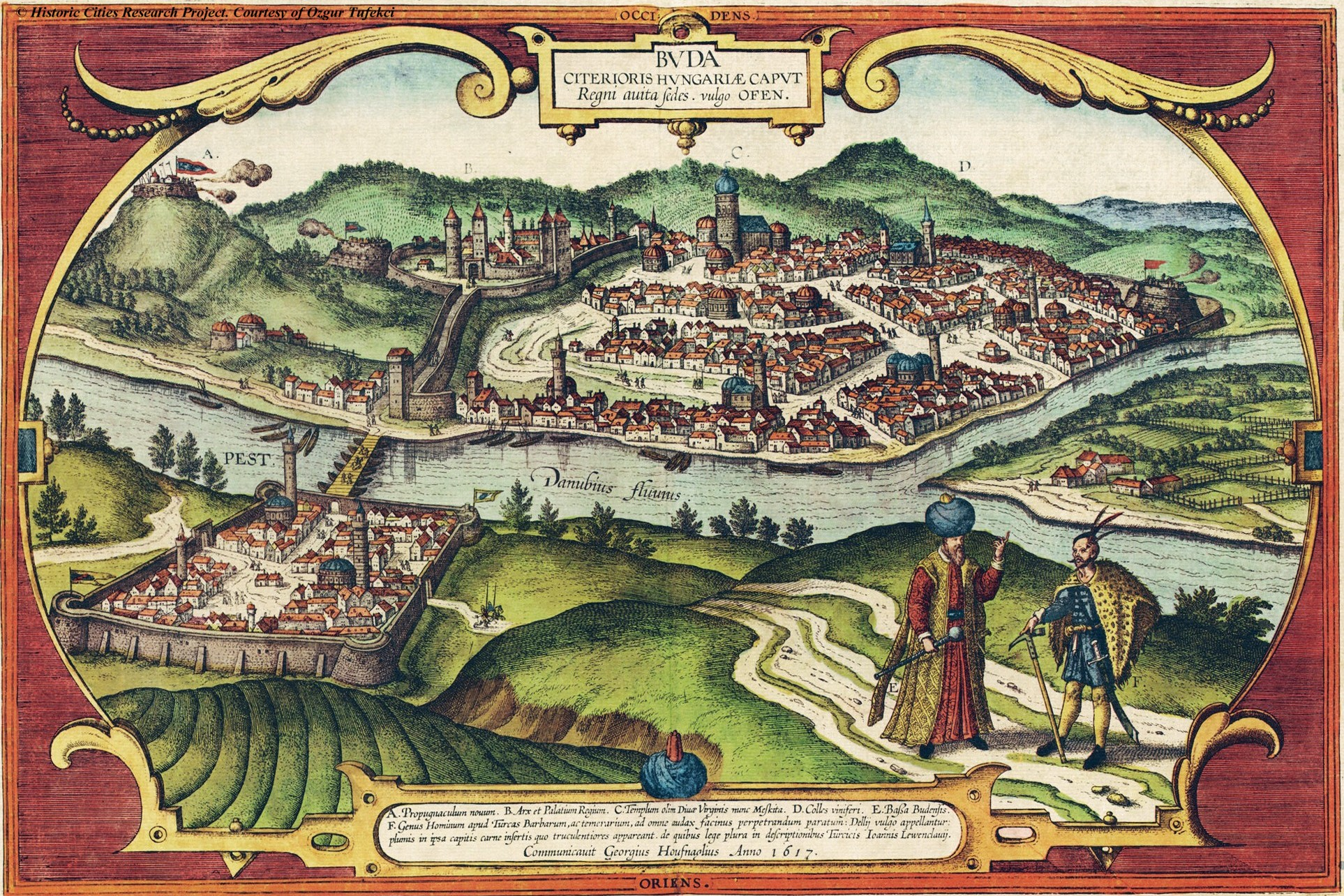 The view of Buda and Pest as depicted in the Braun and Hogenberg Civitates Orbis Terrarum VI of 1617. Based on an etching of Georg Hoefnagel